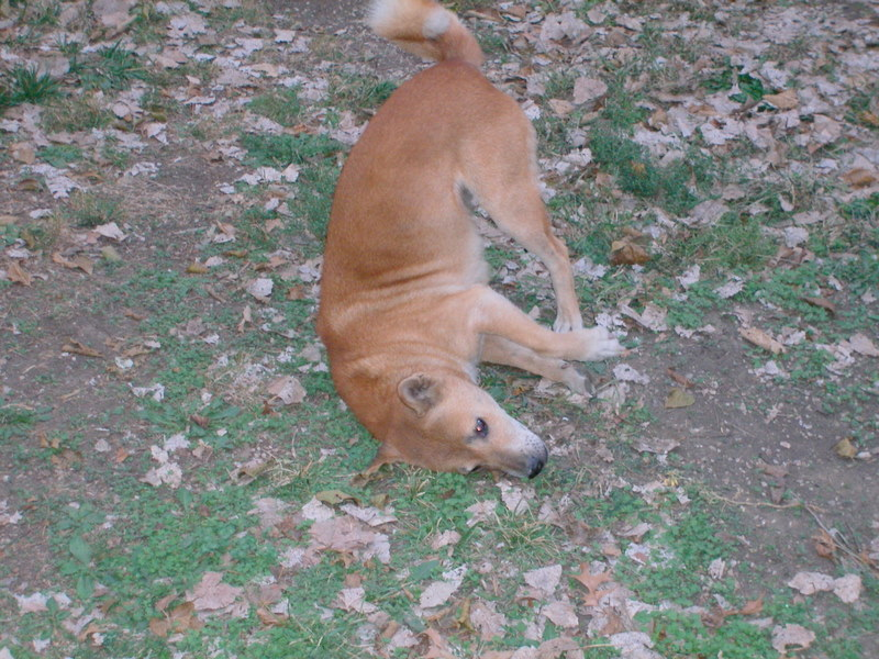 Singing Dogs "scent rub" in order to mark their territory.